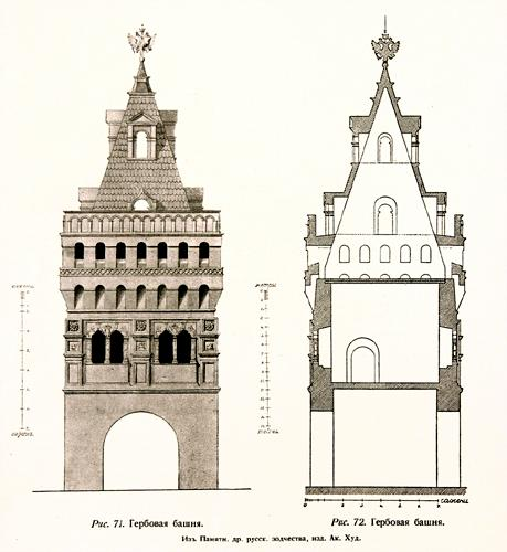 A 19th century drawing of the Gerbovaya tower in Moscow Kremlin (demolished in 1807). Originally from Памятники древнего русского зодчества. Тт. 1-2. Изд. Имп. Академии художеств, 1895.